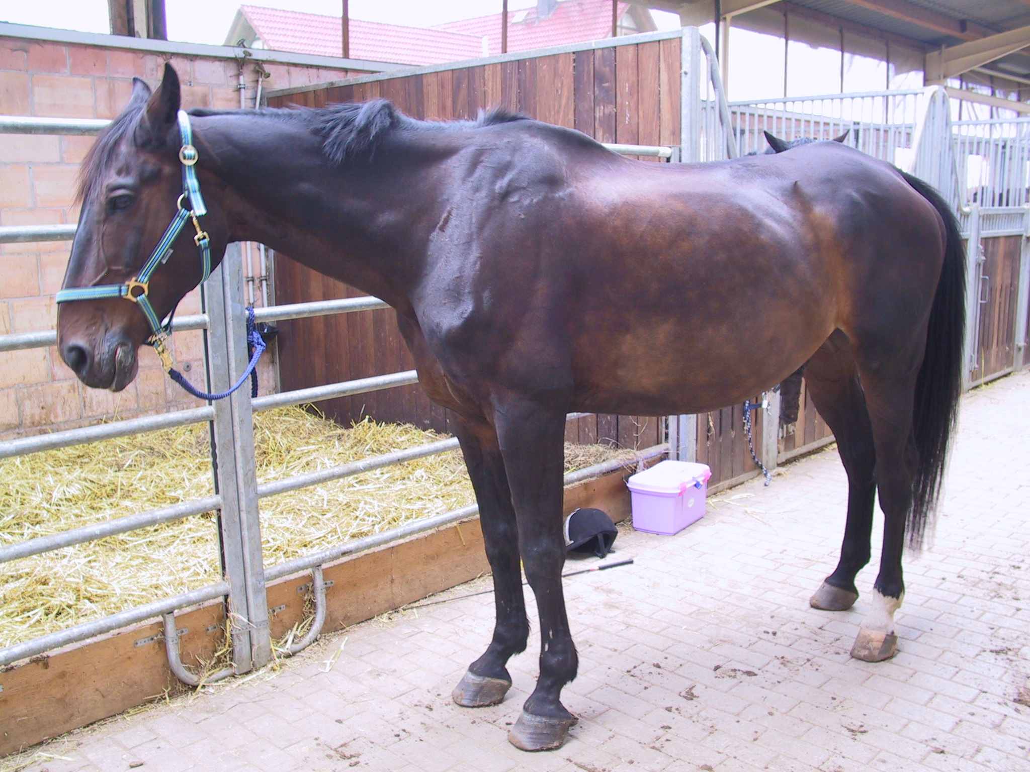 Unser Familienzuwachs: ein 16-jähriger Hesse. New to our family: a 16-year old hessian.